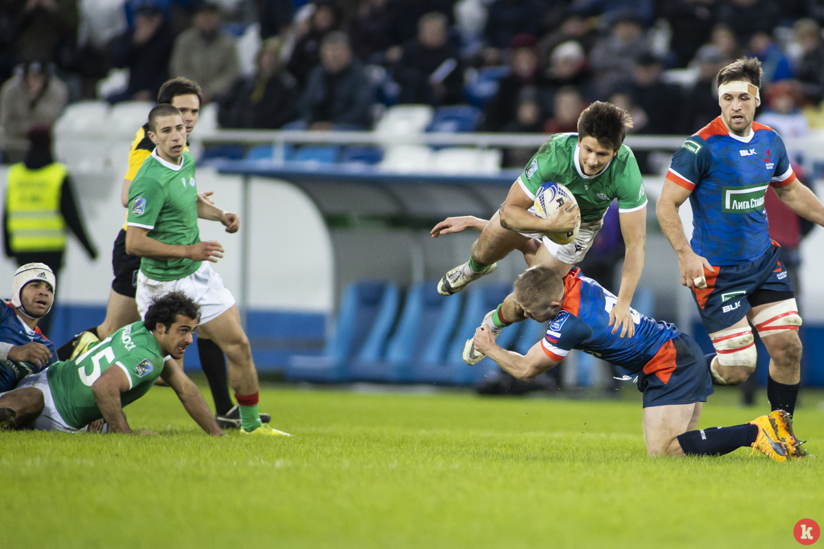 2019-2020 REIC Men XV: Russia vs. Portugal (2020-02-22)